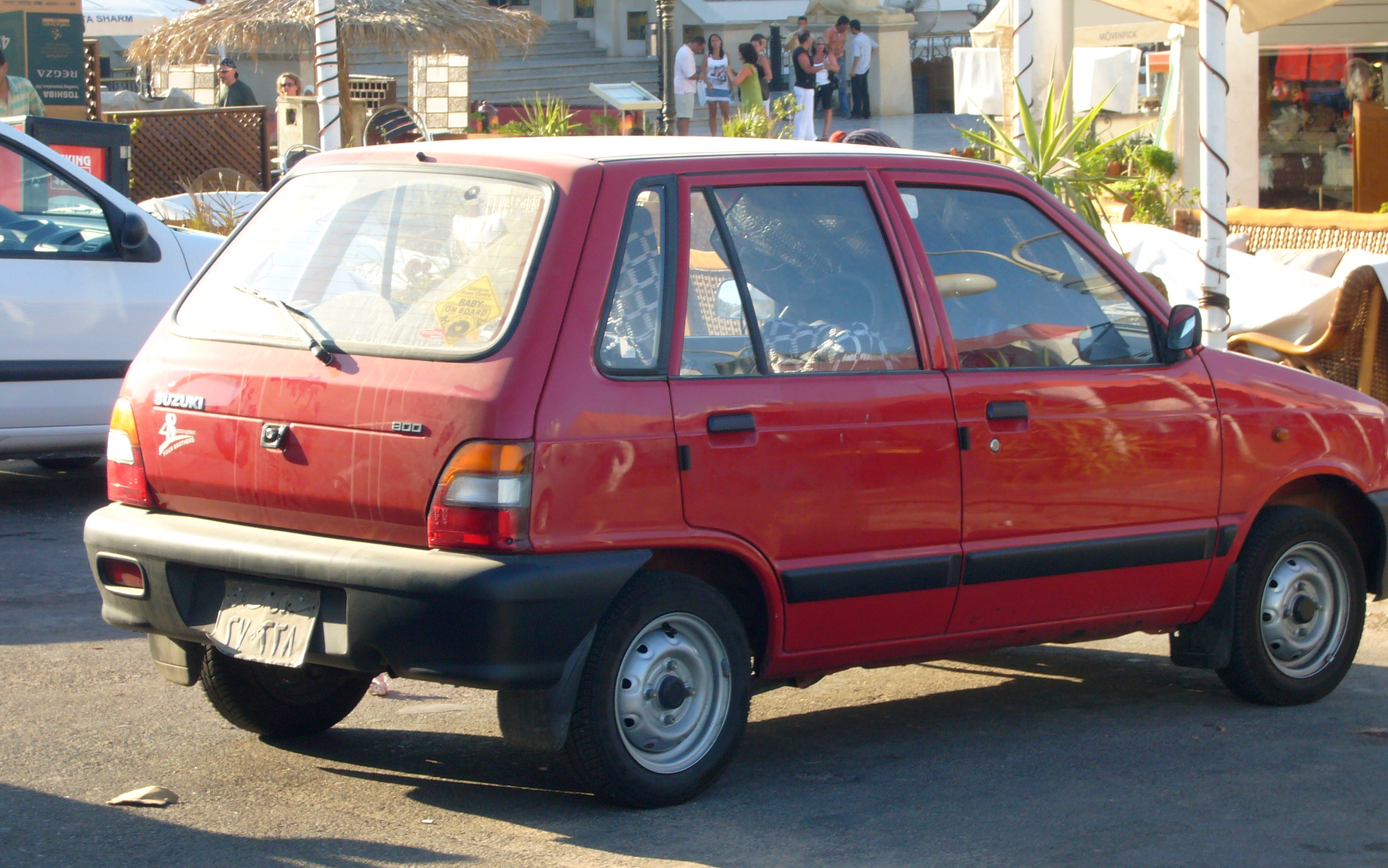 Suzuki 800